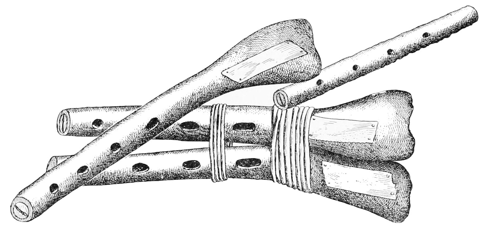 Musical instruments found on San Clemente Island 1895